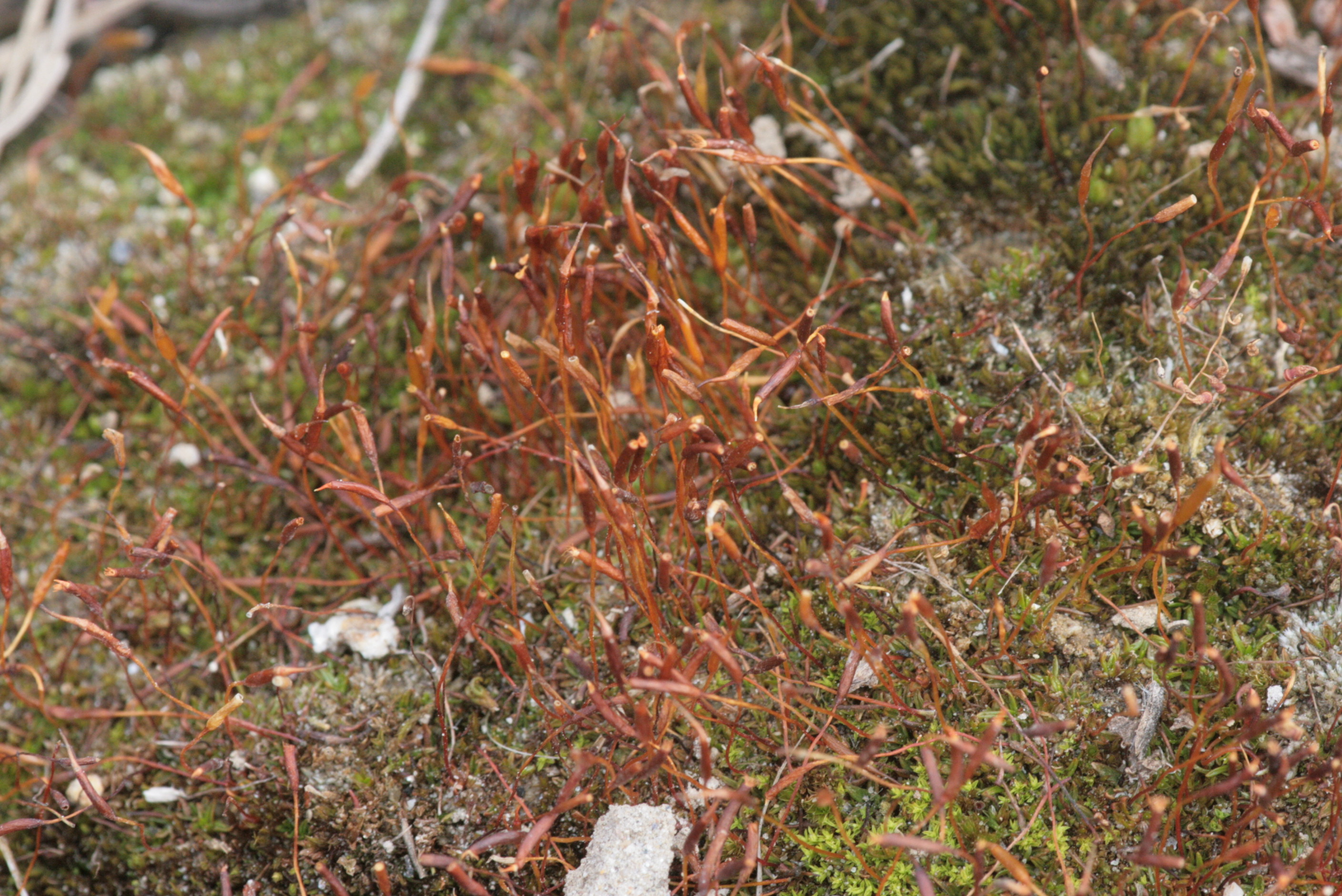 Aloina ambigua